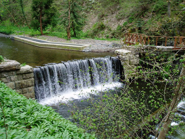 Weir on the River Clywedog. Weir and fish ladder on the Clywedog, at Bontuchel